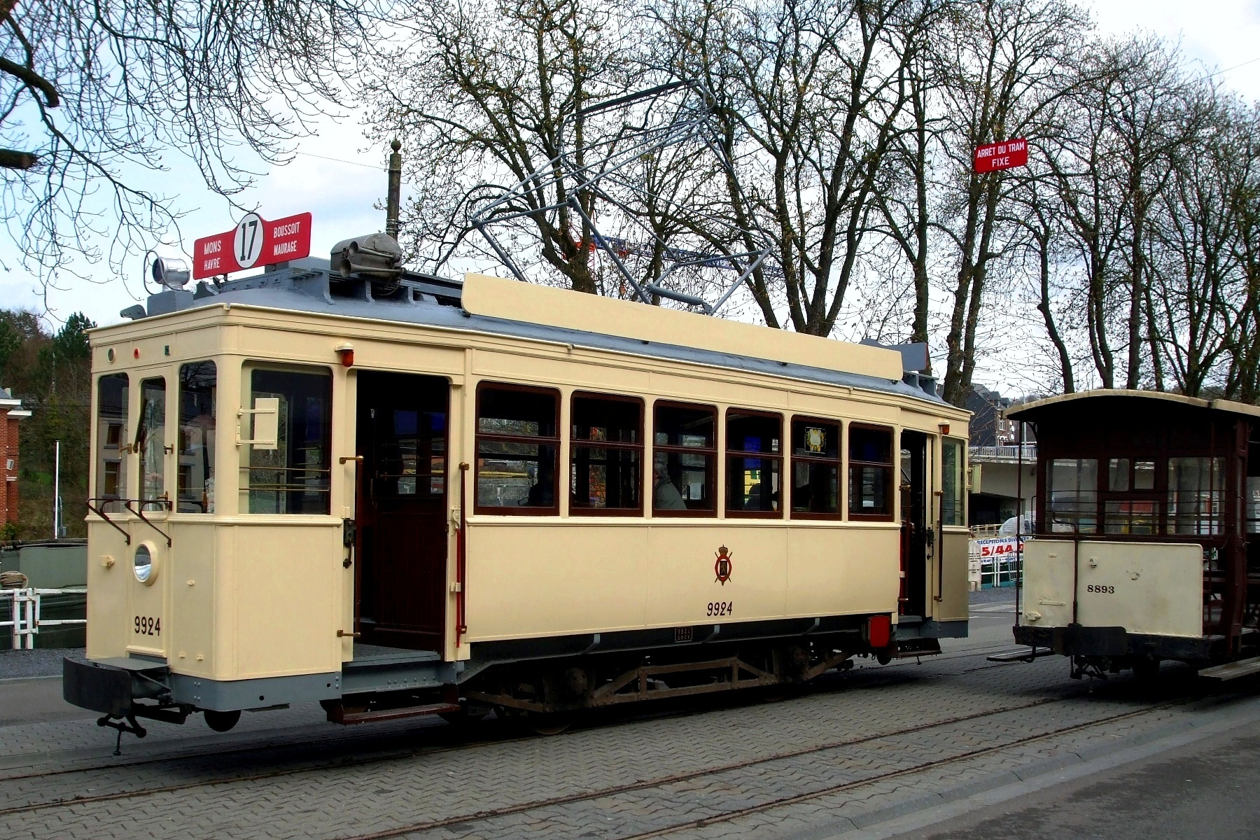 Keywords: SNCV, ASVi, vicinal railways, rail, tram, electric motor car, museum, Thuin, Belgium